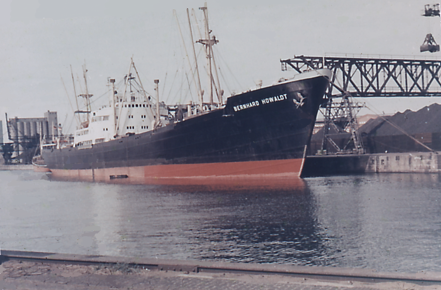 MV Bernhard Howaldt at the coal pier in the port of Malmo (Sweden) - 1957